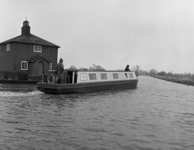 Junction with the Prees Branch, Llangollen Canal. A boat makes the sharp turn into the Press Branch from the main line of the Llangollen Canal. The branch is now navigable for just over a mile to a marina, but once it extended further to serve lime kilns at the village of Quina Brook. The unrestored end is now a nature reserve.